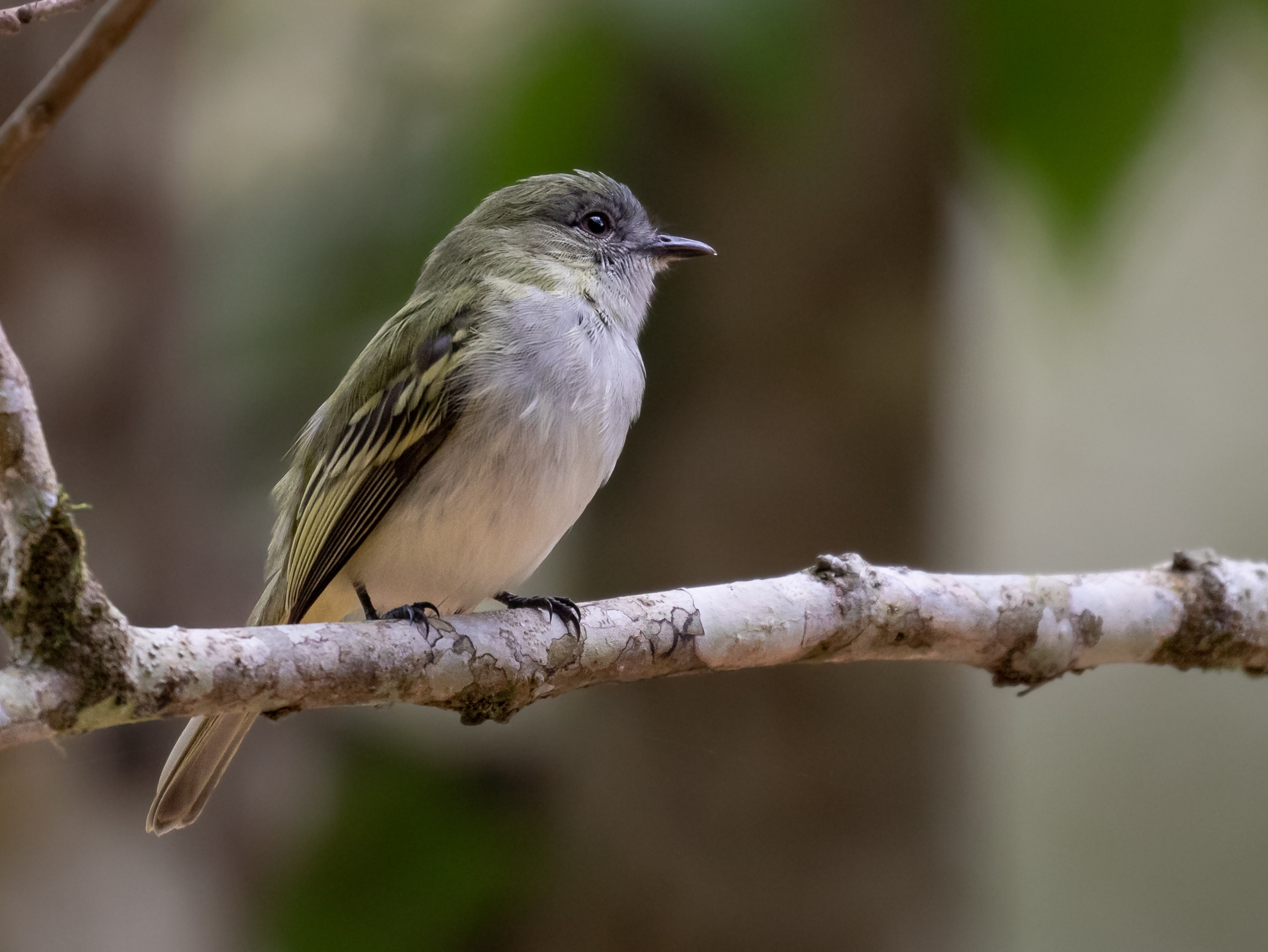 Grey elaenia; Tremembé, São Paulo, Brazil